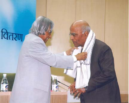 receipent of padmbhushan dr. moturi satyanarayan puraskar, Dr. P. Jayaraman